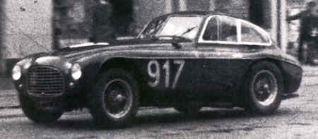 Ferrari 166 at Coppa Toscana on 30 May 1953. This entry #917 is the 1950 Ferrari 166 MM Touring barchetta s/n 0046M and was driven by its owner Luigi Bosisio to a 3rd place in class (28th overall).[1][2] In the picture it has gotten the new berlinetta body by Zagato.